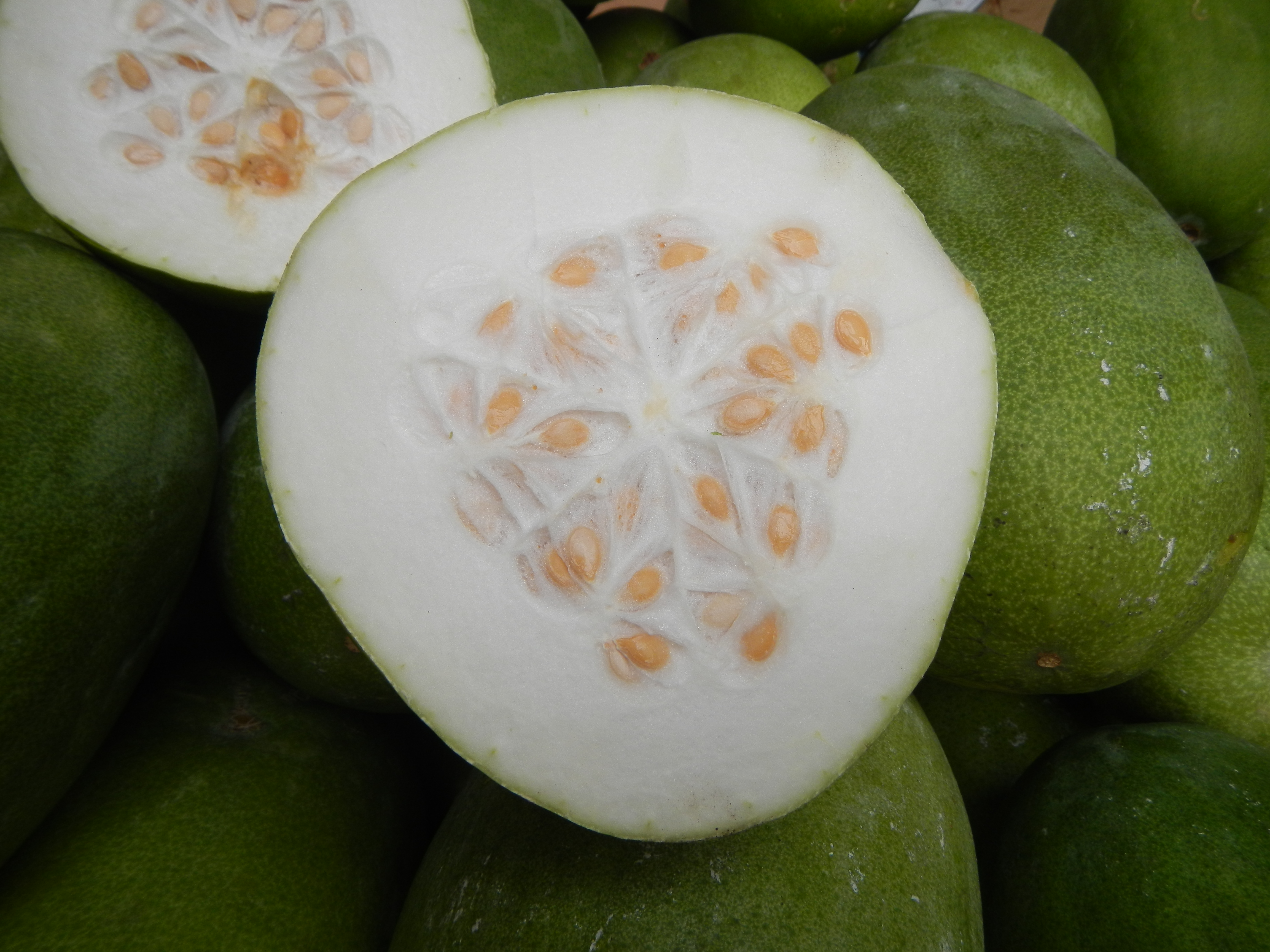 Kundol, Winter melon, Benincasa hispida, also called white gourd, winter gourd, tallow gourd, Chinese preserving melon, or ash gourd, the only member of the genus Benincasa in Santa Cruz, Manila, T. Alonzo st.